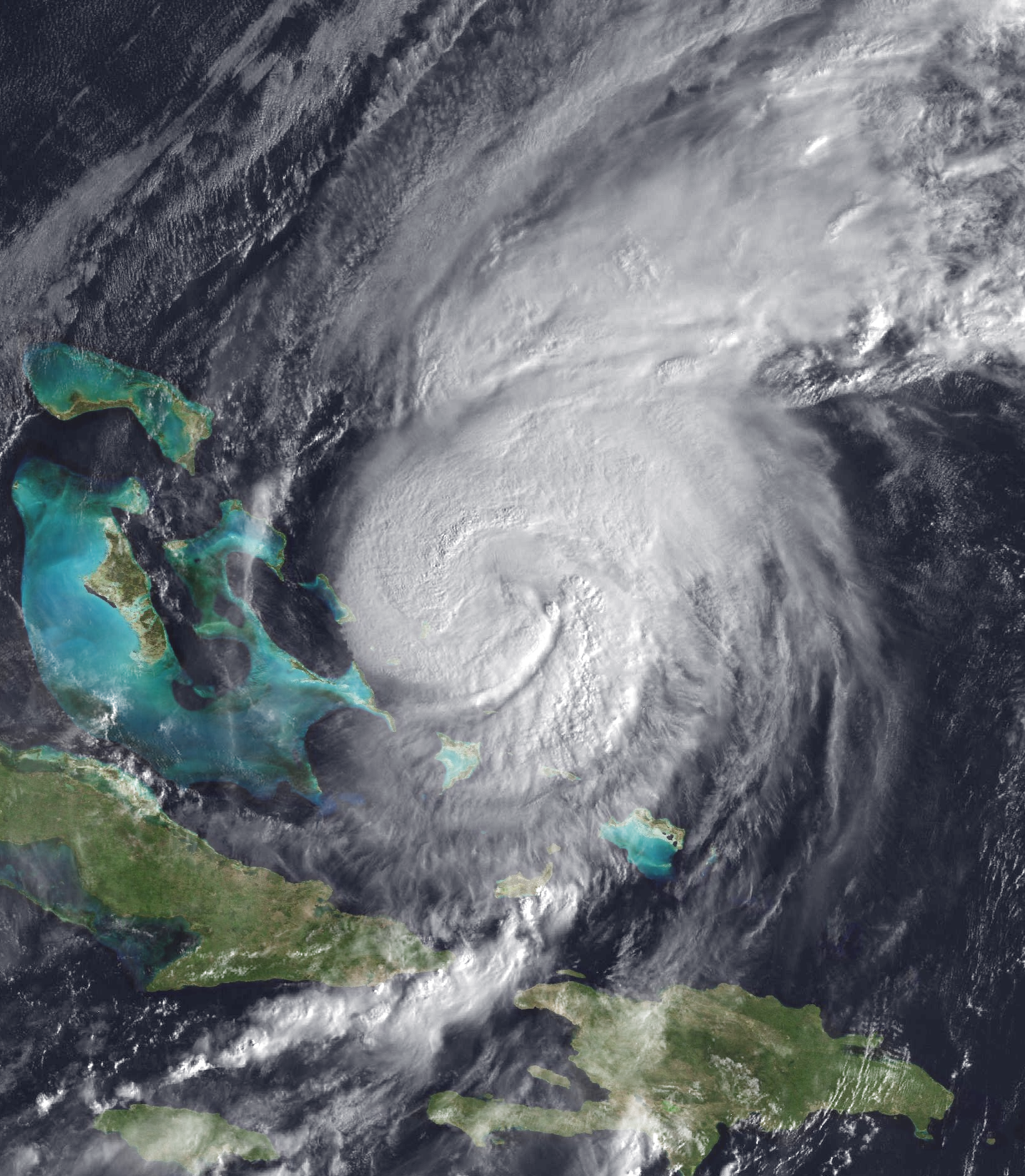 Hurricane Lili at peak intensity east of the Bahamas on October 19, 1996